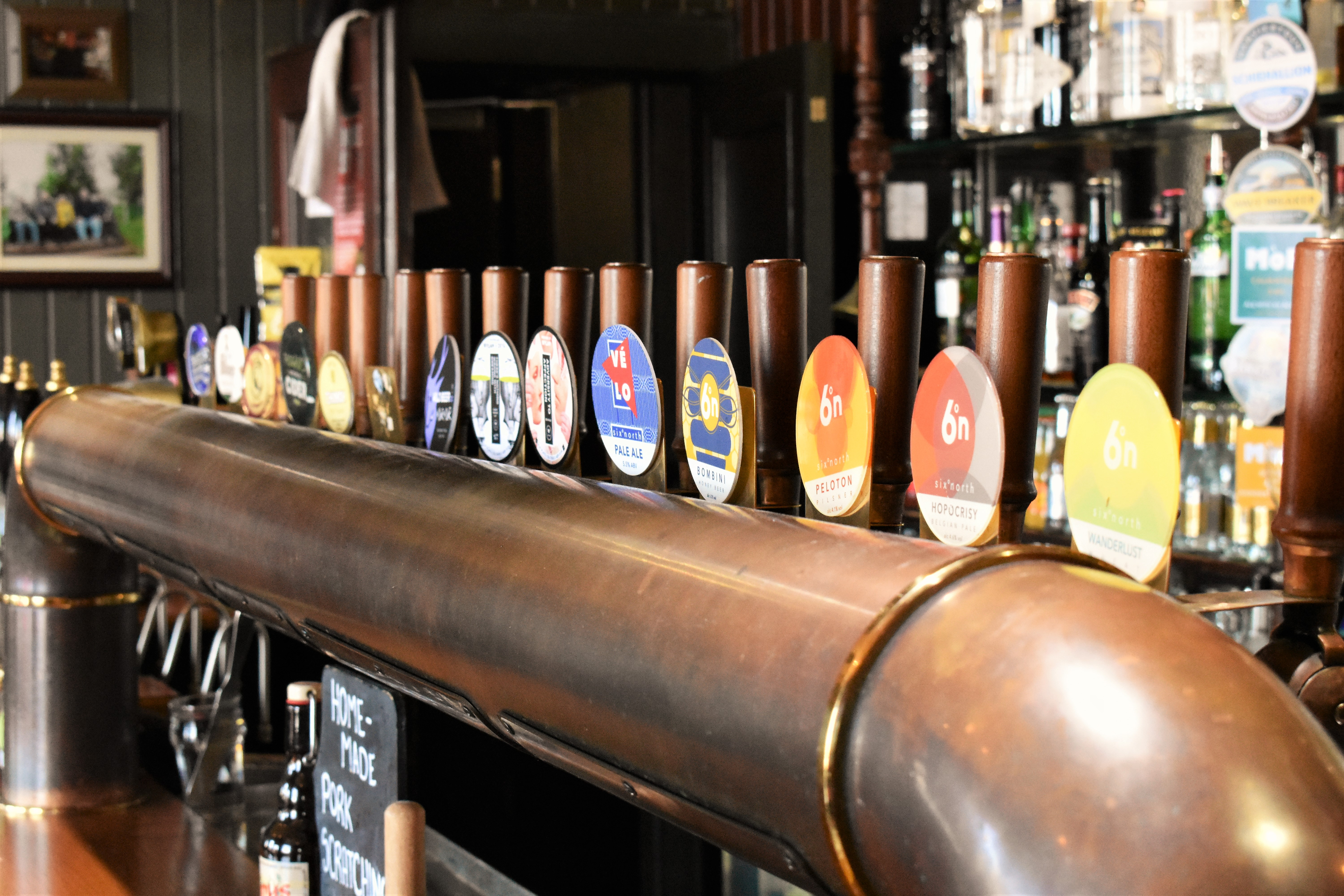 Marine Hotel, Shorehead, Stonehaven Wikidata has entry Q56647205 with data related to this item.